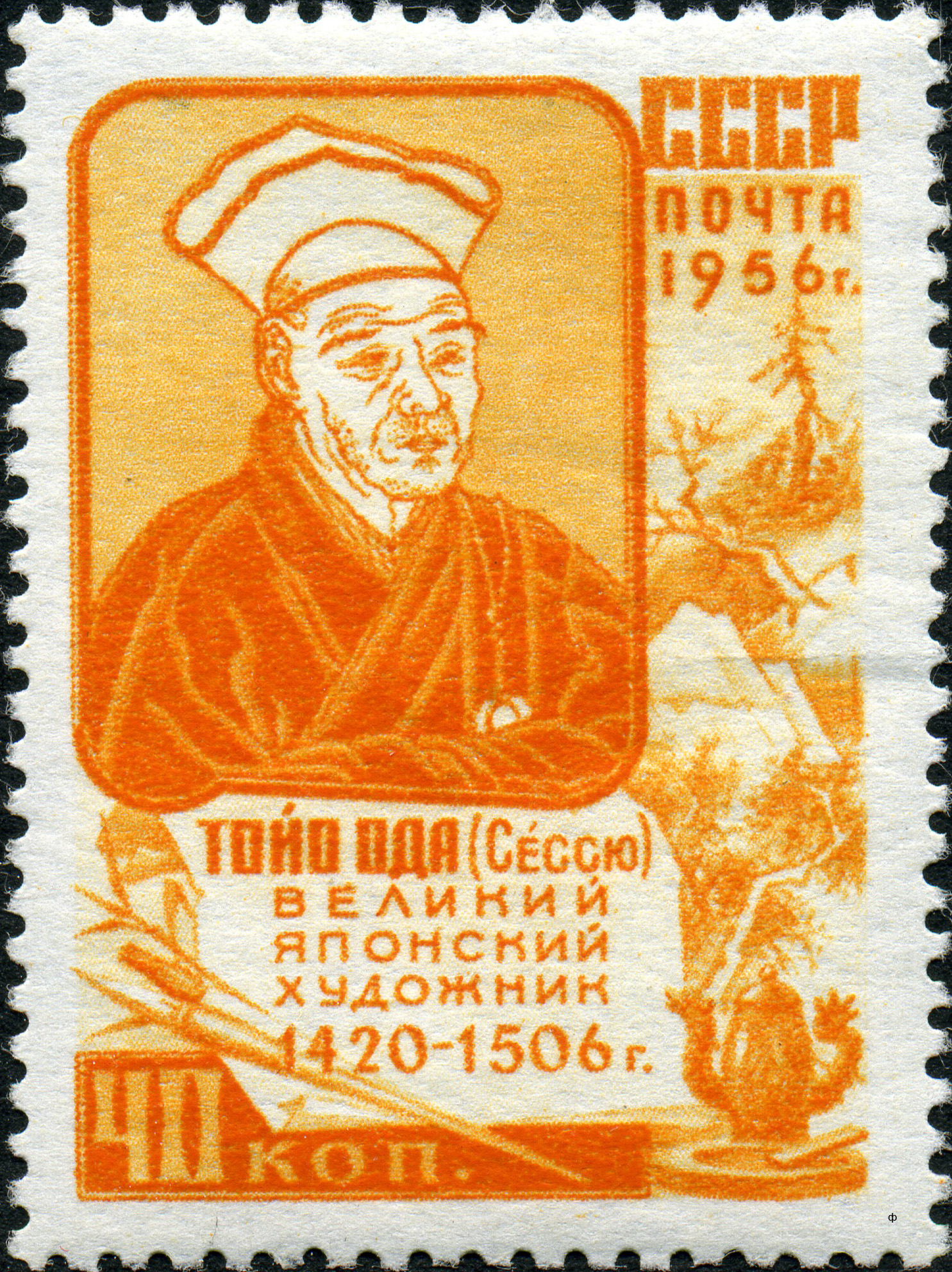 Sesshū Tōyō on stamp of USSR, 1956, CFA # 1952